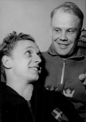 Nordic Championship in Weightlifting: Johan Runge